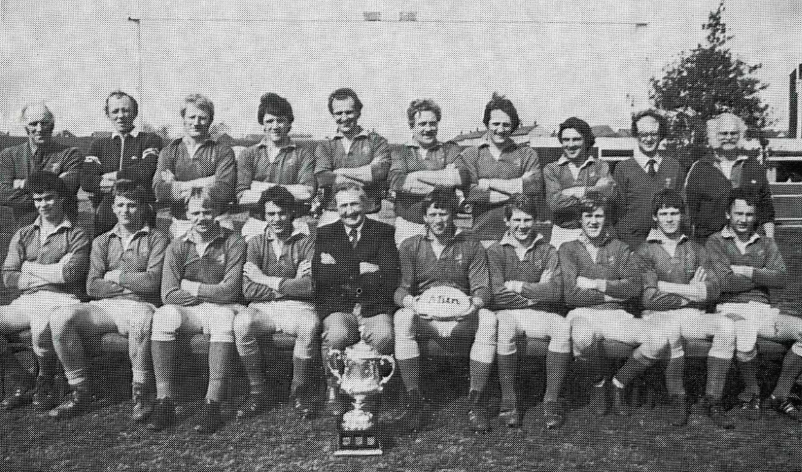 84 cup